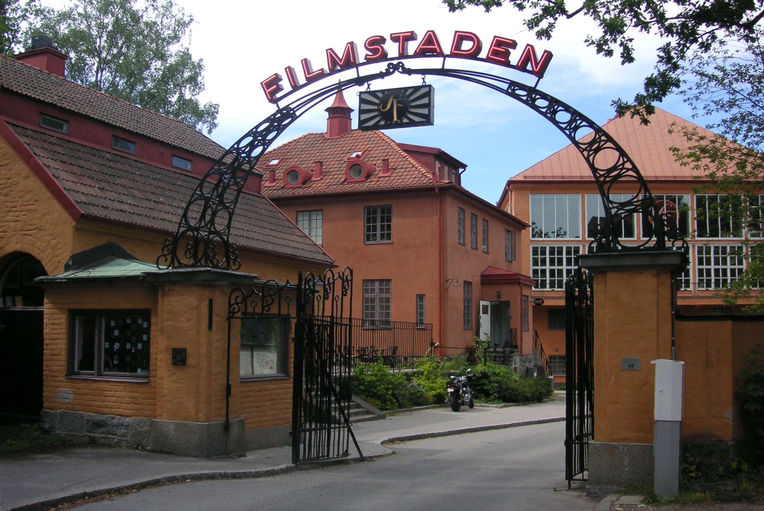 The former Swedish filmstudios "Filmstaden" in Solna